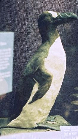 Pinguinus impennis Great Auk replica[1], Rothschild Zoological Museum, Tring, England.